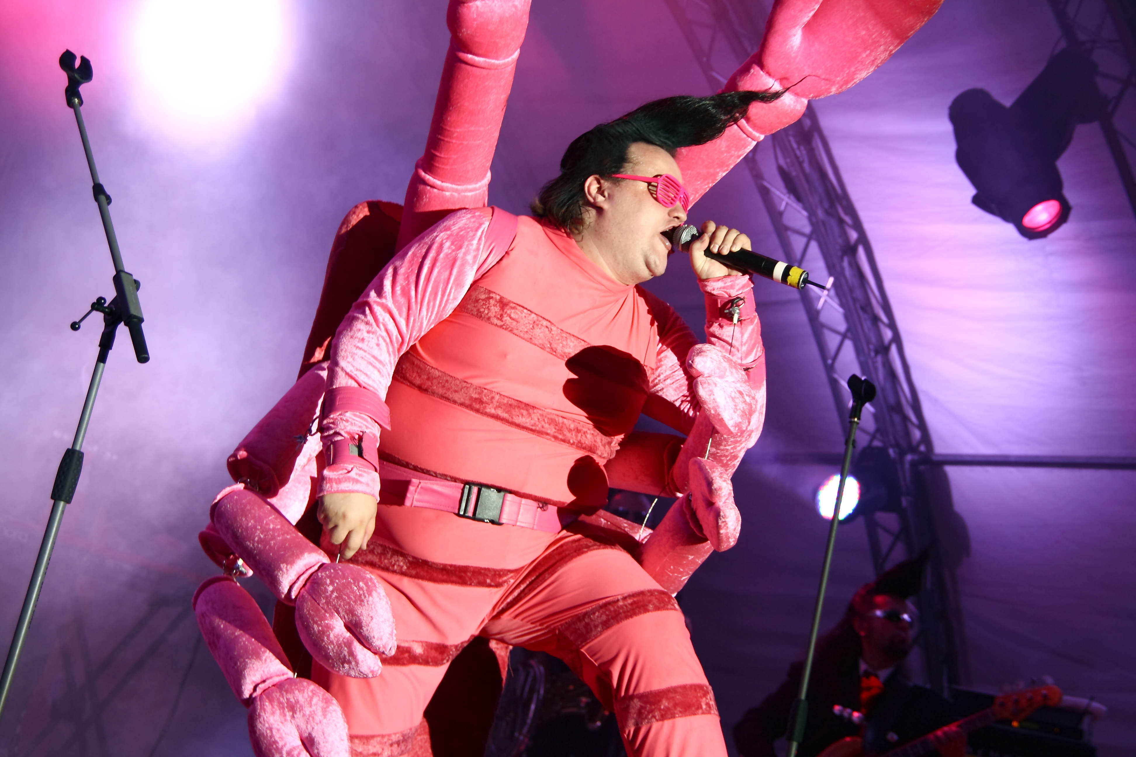 Leningrad Cowboys at TFF.Rudolstadt 2010